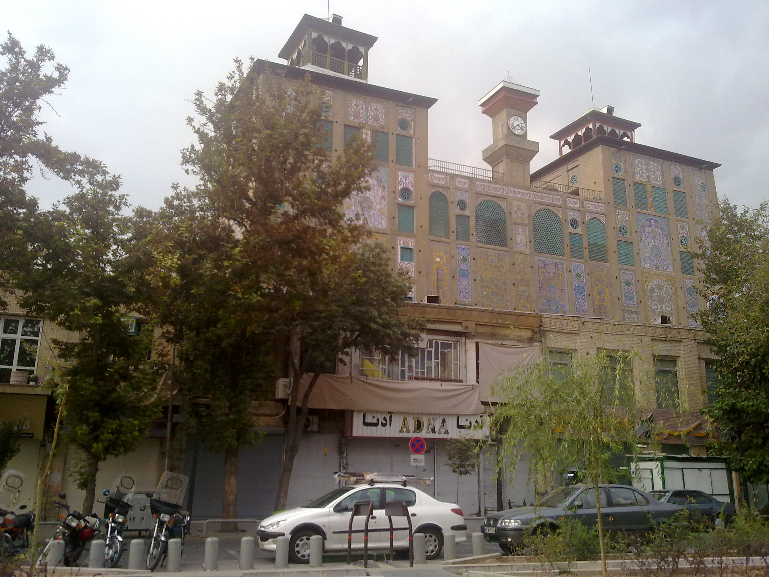 Shamsol Emare view from Naser Khosro St.